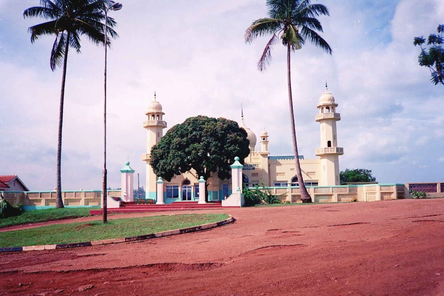 A mosque in UgandaMosque